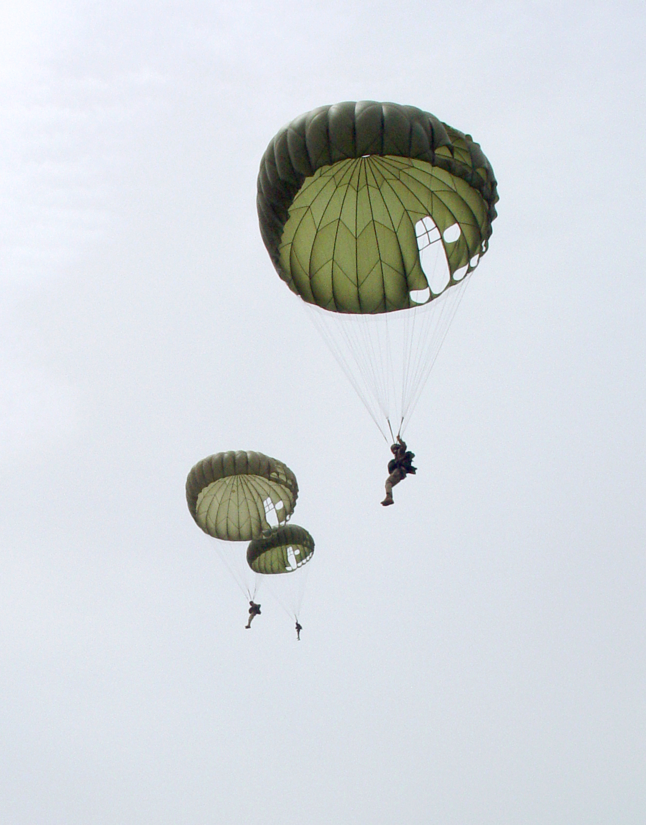 Final parachute jump during the 10th SFG training mission to Mali, 2006